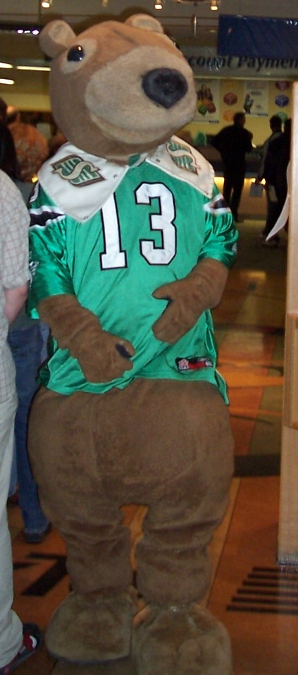 Gainer the Gopher 29 Sep 2006. Photo courtesy Laurie Fisher.